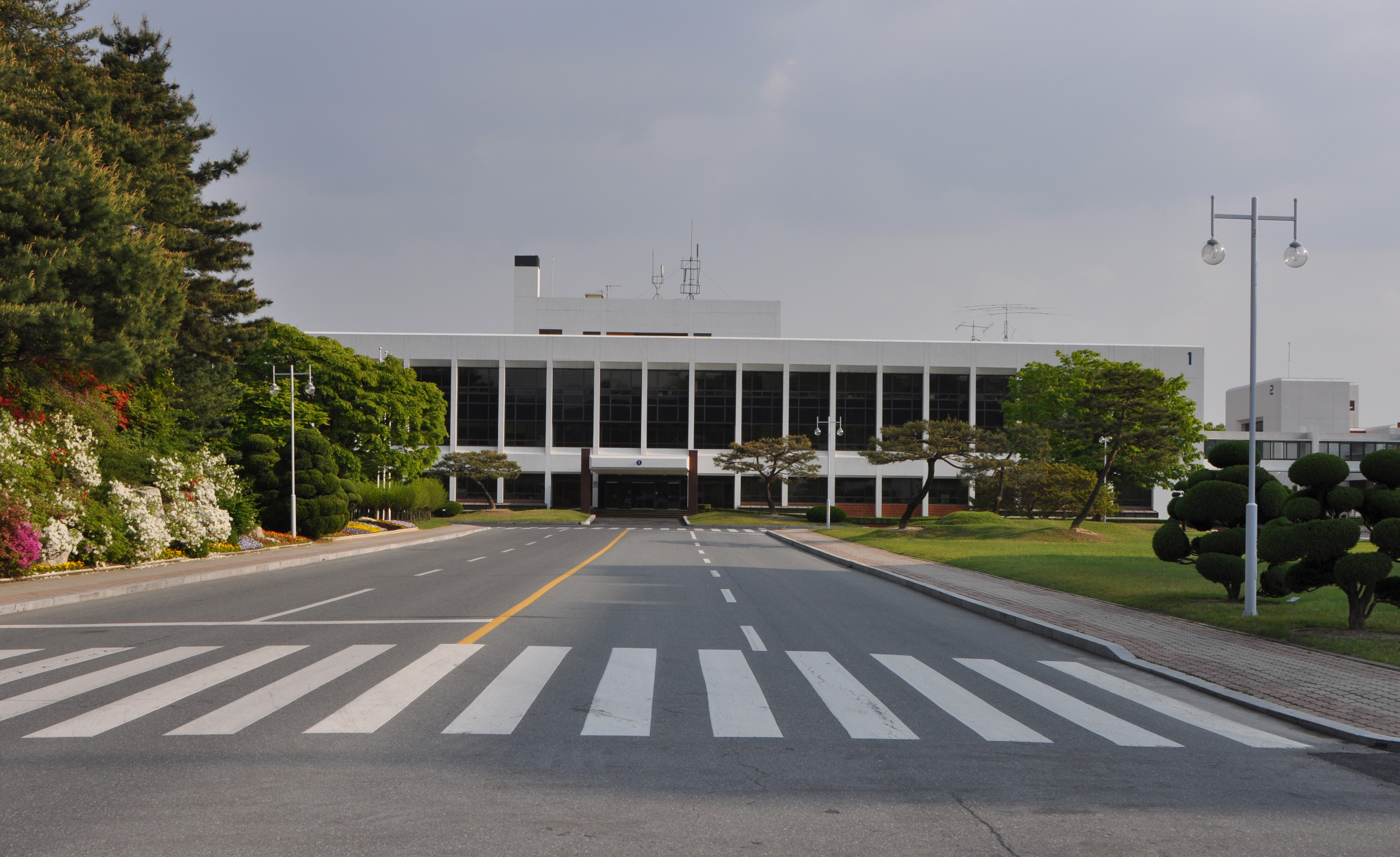 Electronics and Telecommunications Research Institute (EtTRI), Korea